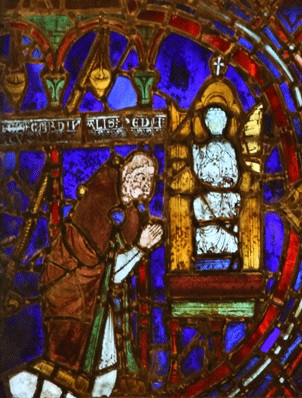 Depiction of Étienne Chardonnel in one of the stained glass windows of the Notre-Dame du Pilier chapel in the Chartres Cathedral